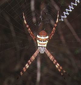 female Argiope minuta from Okinawa.